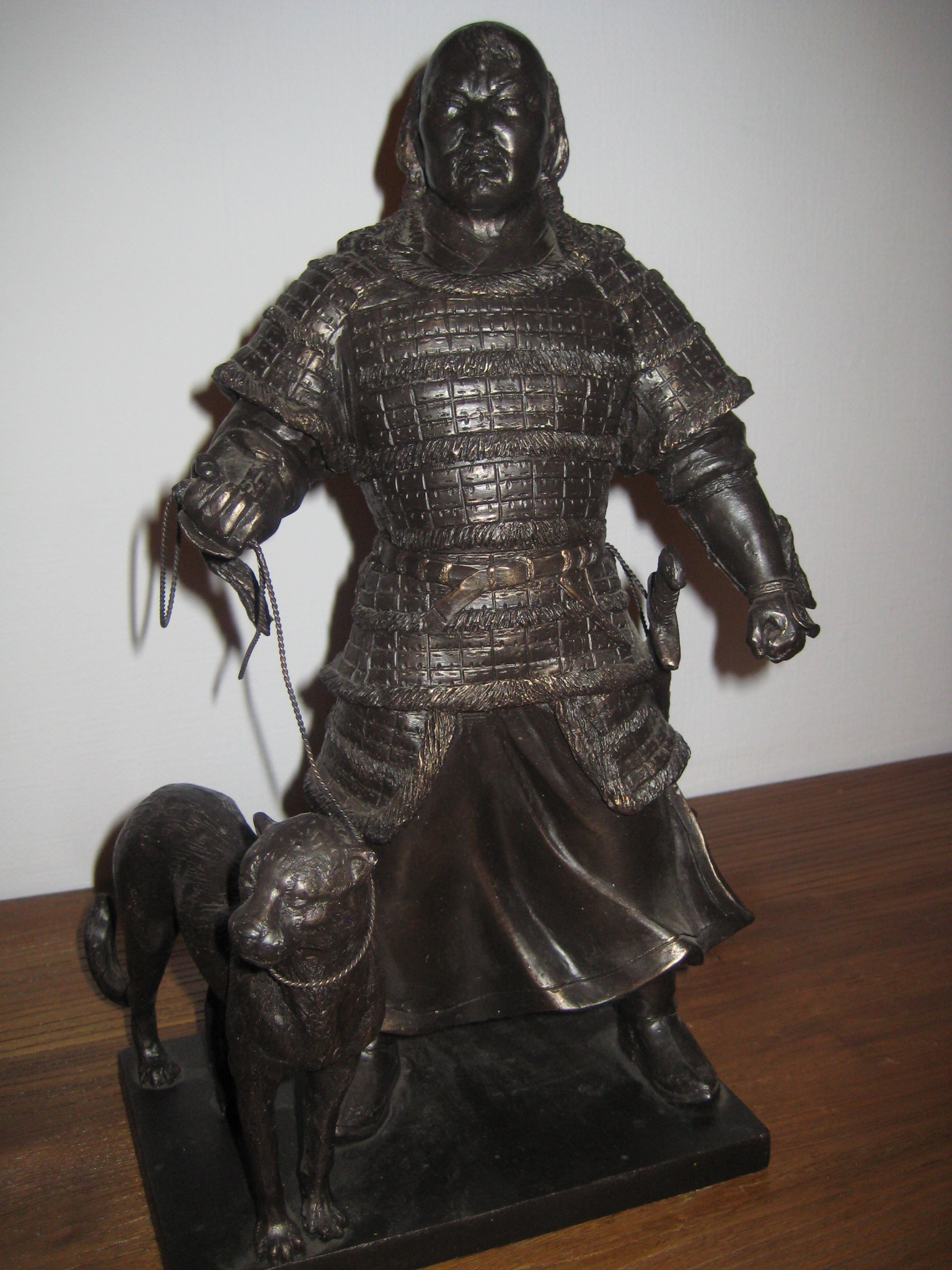 Mongol hunter and cheetah in Tsonjin Boldog, Tuv aimag, Mongolia